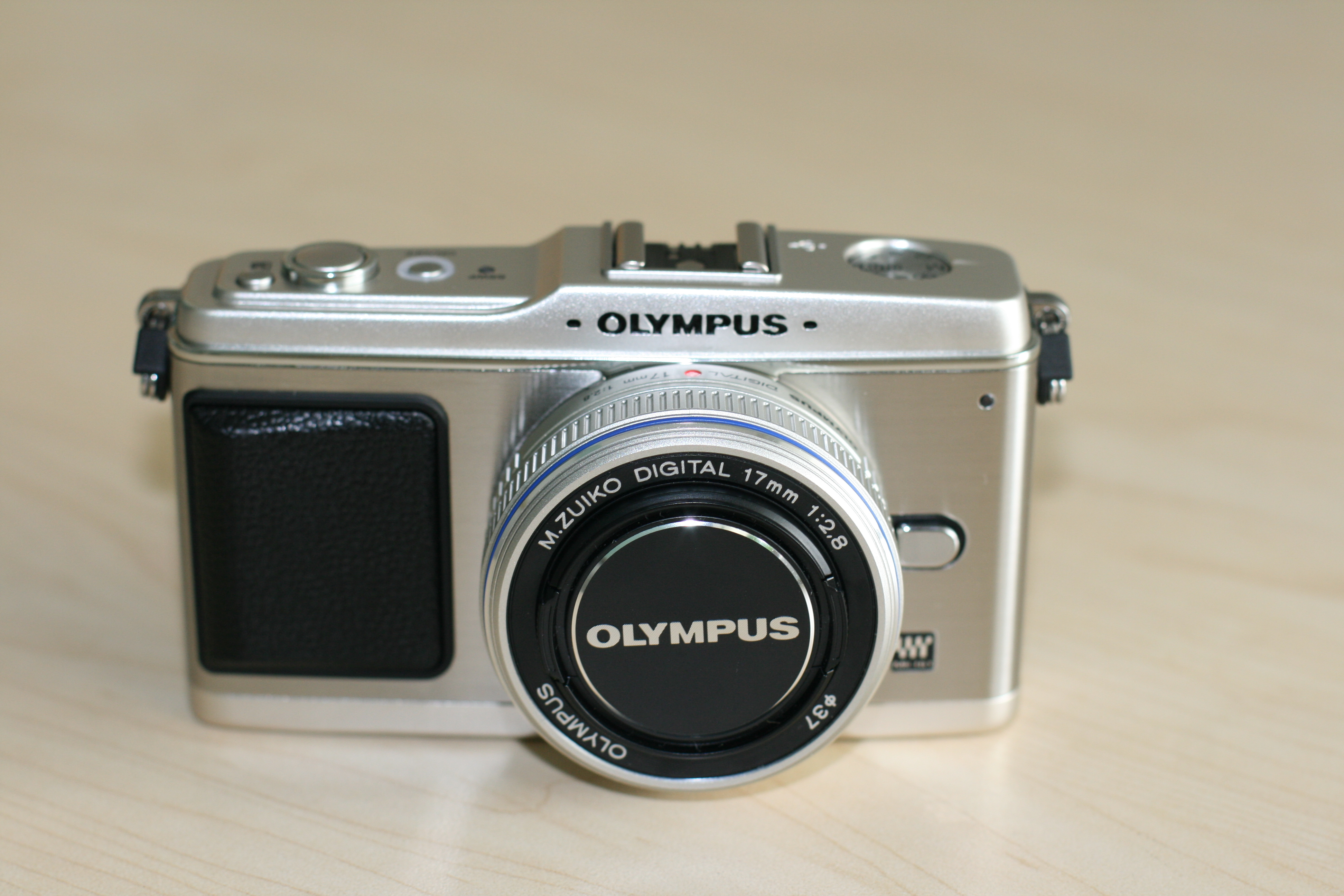 Front view of Olympus PEN E-P1 digital camera with Olympus M.Zuiko Digital 17 mm f/2.8 lens